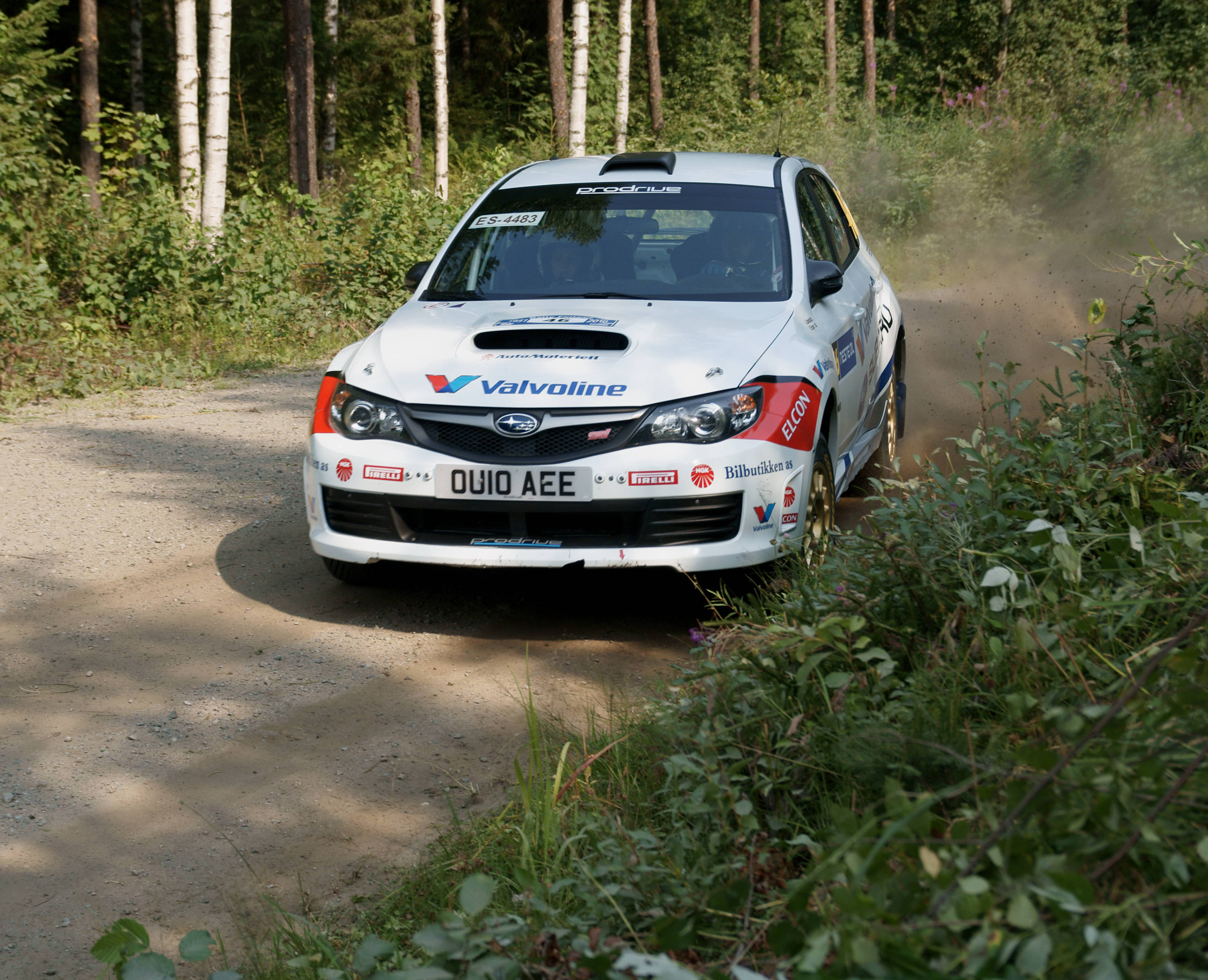 Anders Grondal driving at Rannakylä shakedown in Muurame.